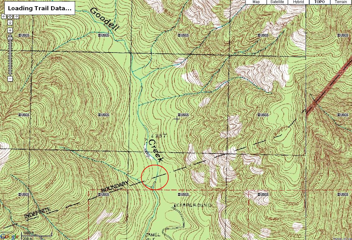 Topo map of Goodell Creek in North Cascades National Park and Ross Lake NRA. The 600 foot contour passes just downstream of the boundary, shown by the dashed line.